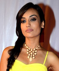 Surbhi Jyoti at Television Style Awards